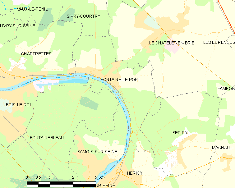 Map of French municipality Fontaine-le-Port